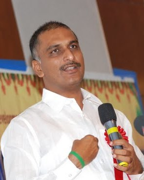 T. Harish Rao